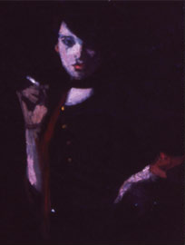 A painting by Fred Wagner (still need to figure out the title and other details).